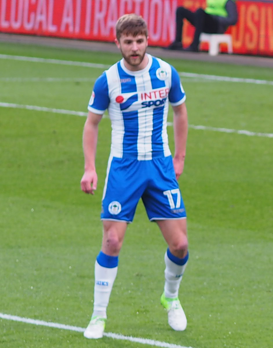 AFC Bournemouth - Wigan Athletic 2:2, Emirates FA Cup Third Round, 6-Jan-2018, Vitality Stadium, Bournemouth